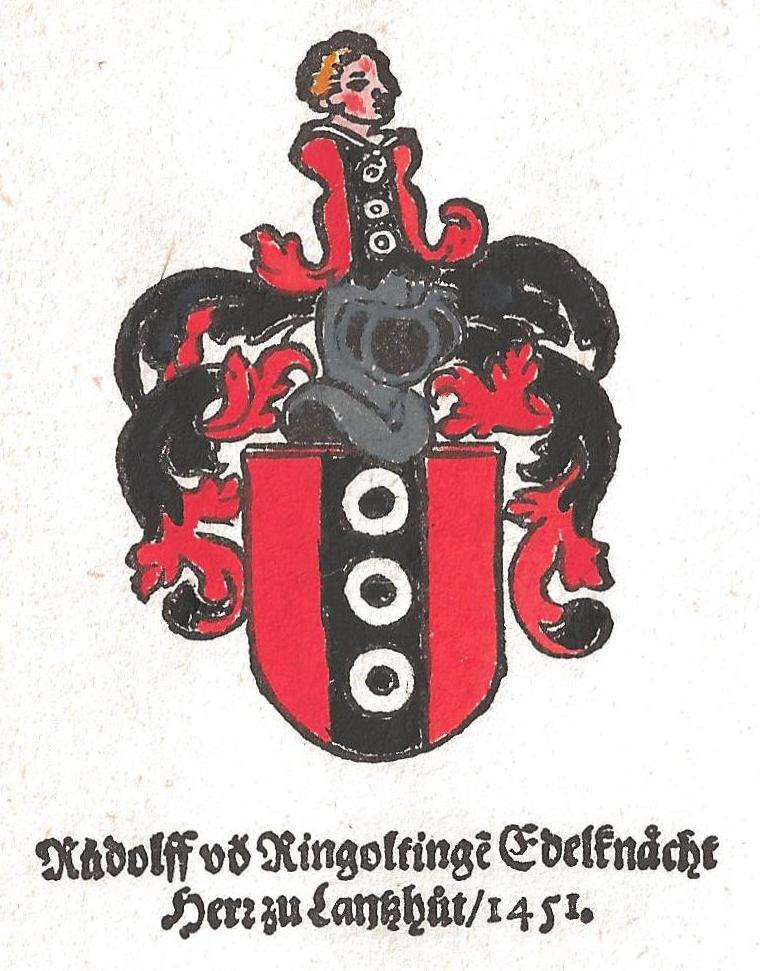 Waltter, Rudolf von Ringoltingen